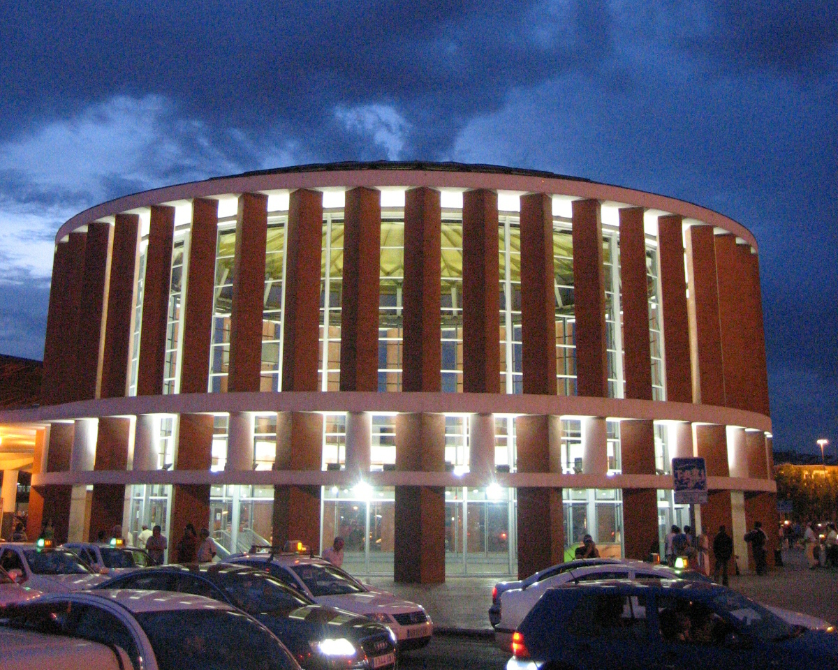 Modern access of the Atocha Station, Madrid. (cropped)